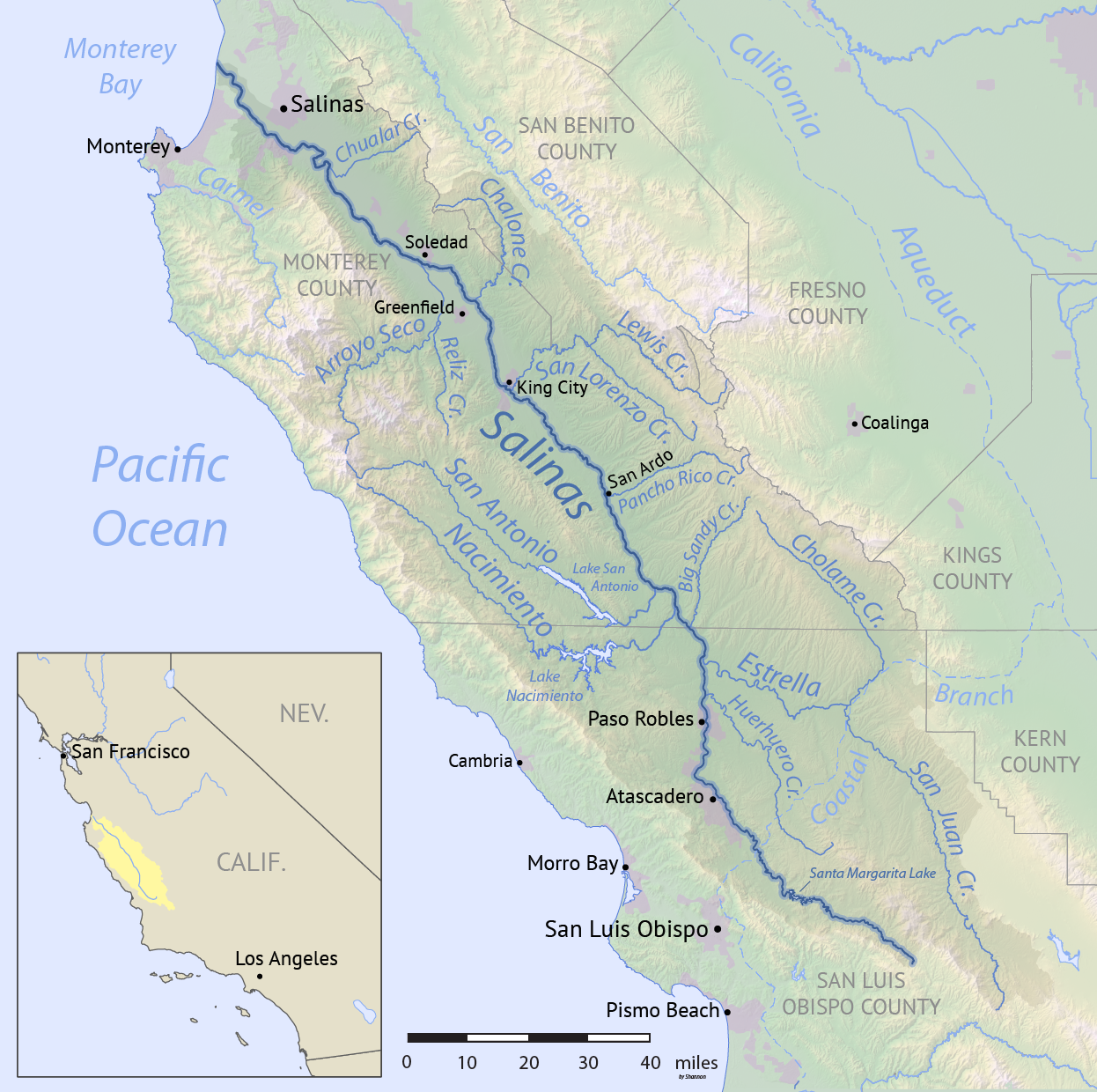 Map of the Salinas River watershed in Central California, USA. Made using USGS National Map data.